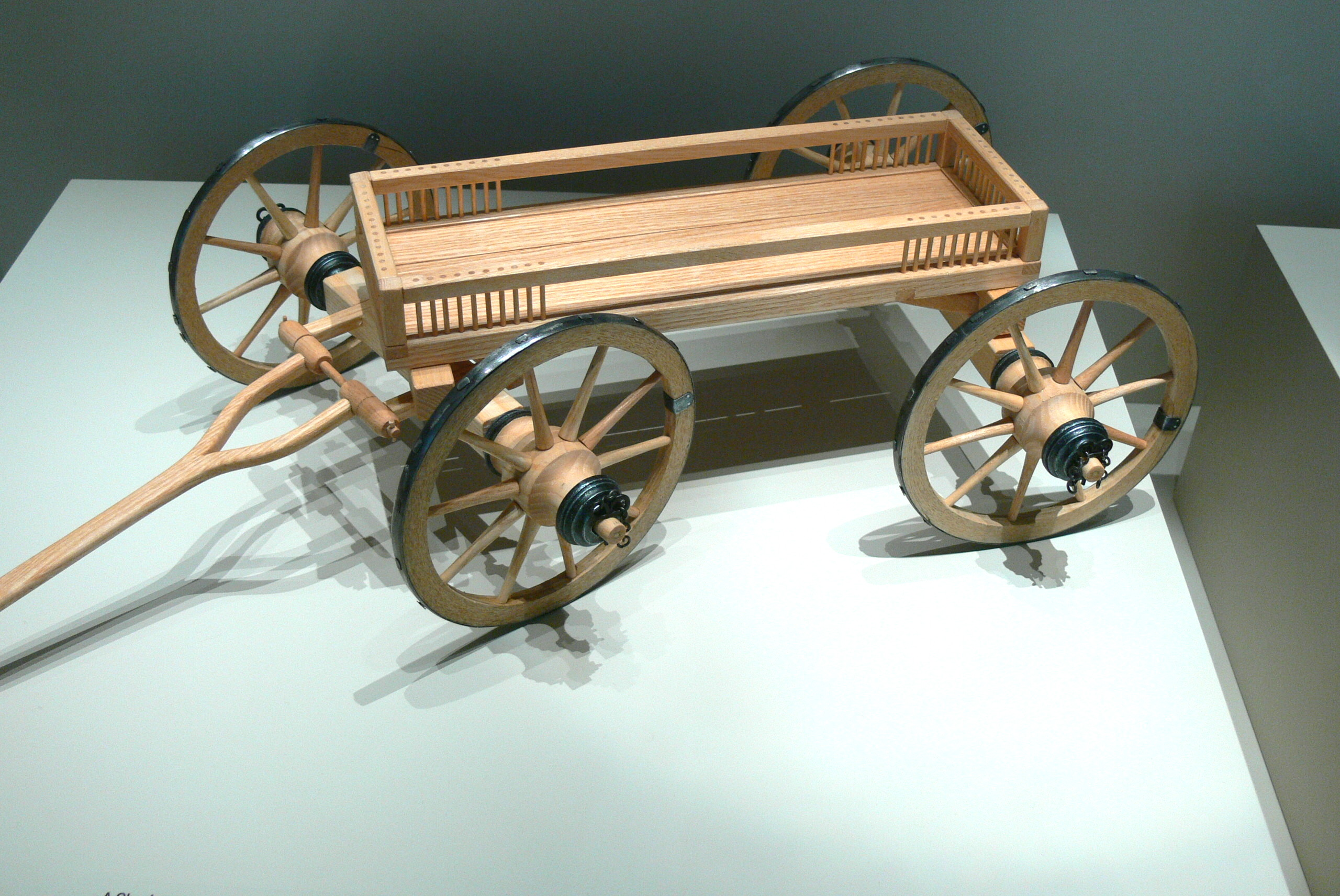 German National Museum ( Nuremberg / Germany ). Model reconstruction of a four-wheeled carriage of the Hallstatt period.